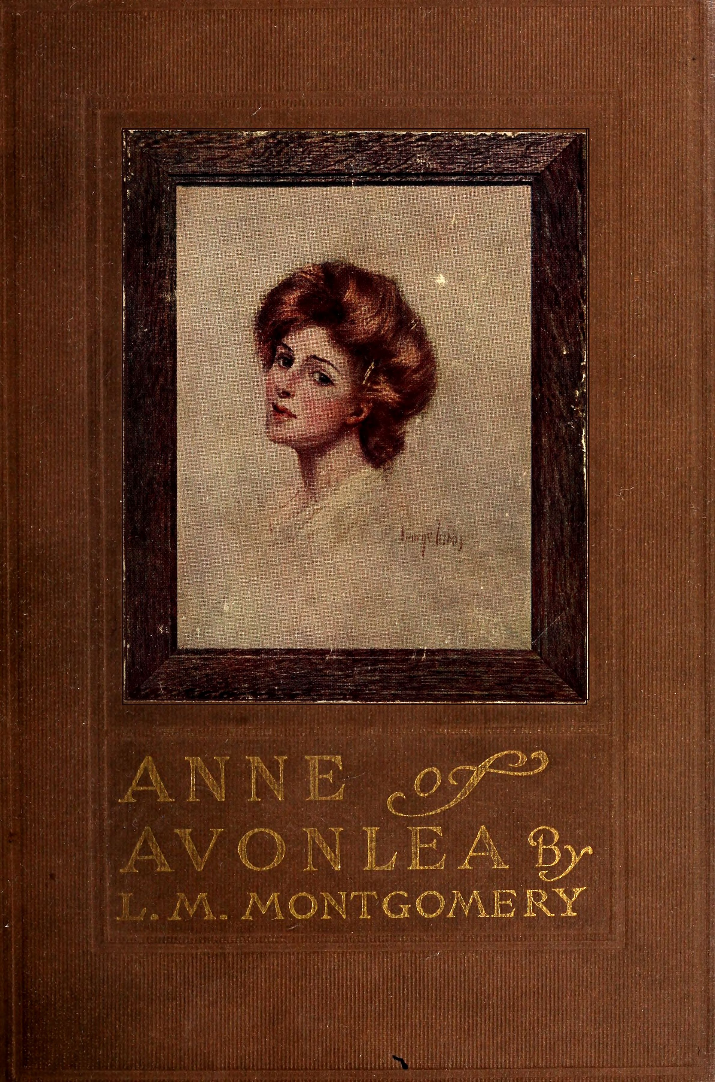 Cover--"Anne of Avonlea" (1909) by L. M. Montgomery; illus by George Fort Gibbs. Publishers, Sir Isaac Pitman & Sons Ltd, London, 1909.